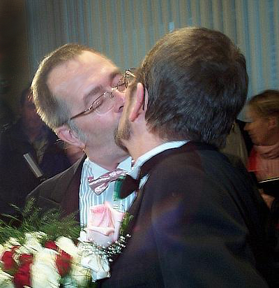 Taken from Image:Hendricks-leboeuf.jpg Wedding of Michael Hendricks and René Leboeuf, first same-sex marriage in Quebec; Montreal, 1 April 2004.